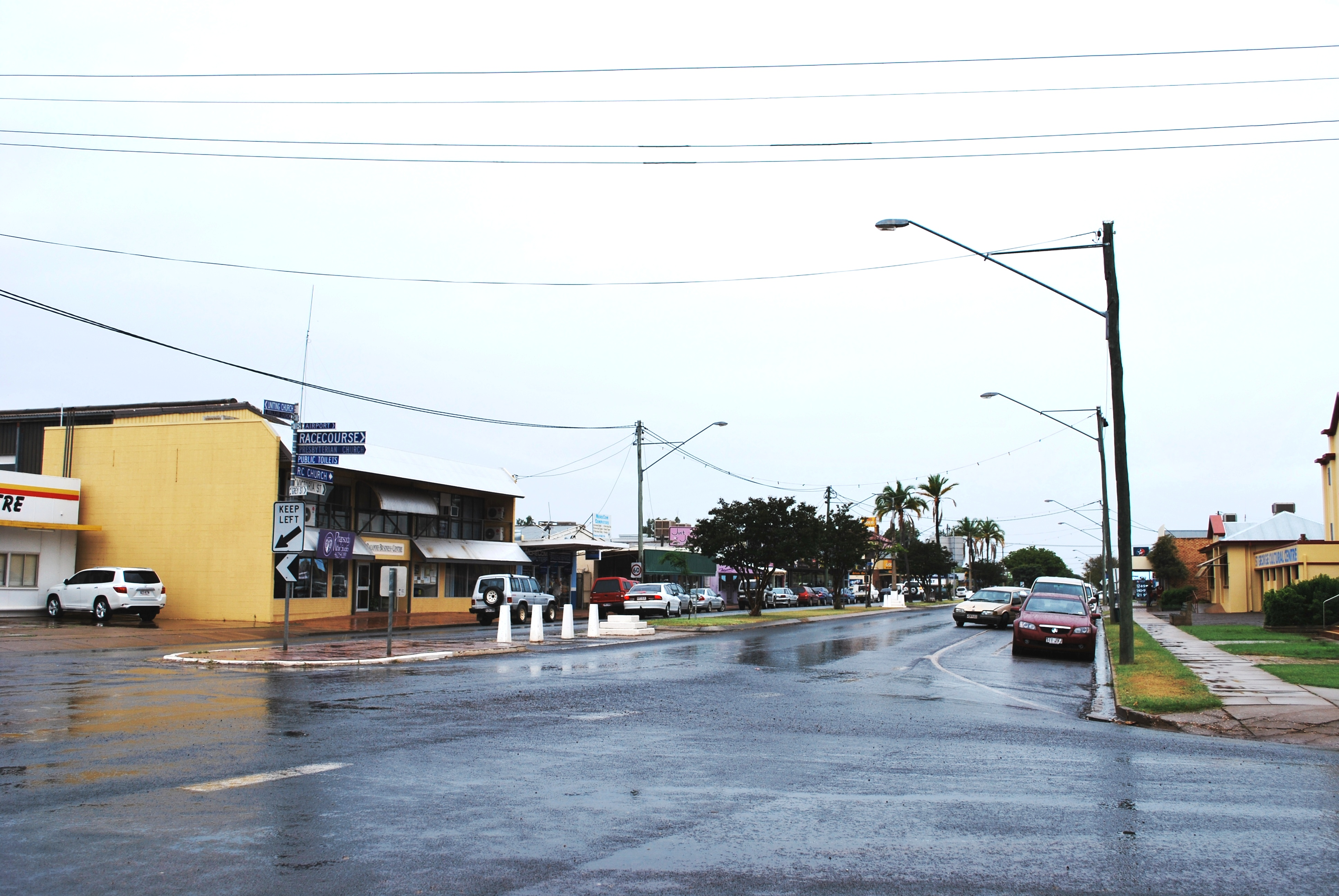 Main street of St George, Queensland